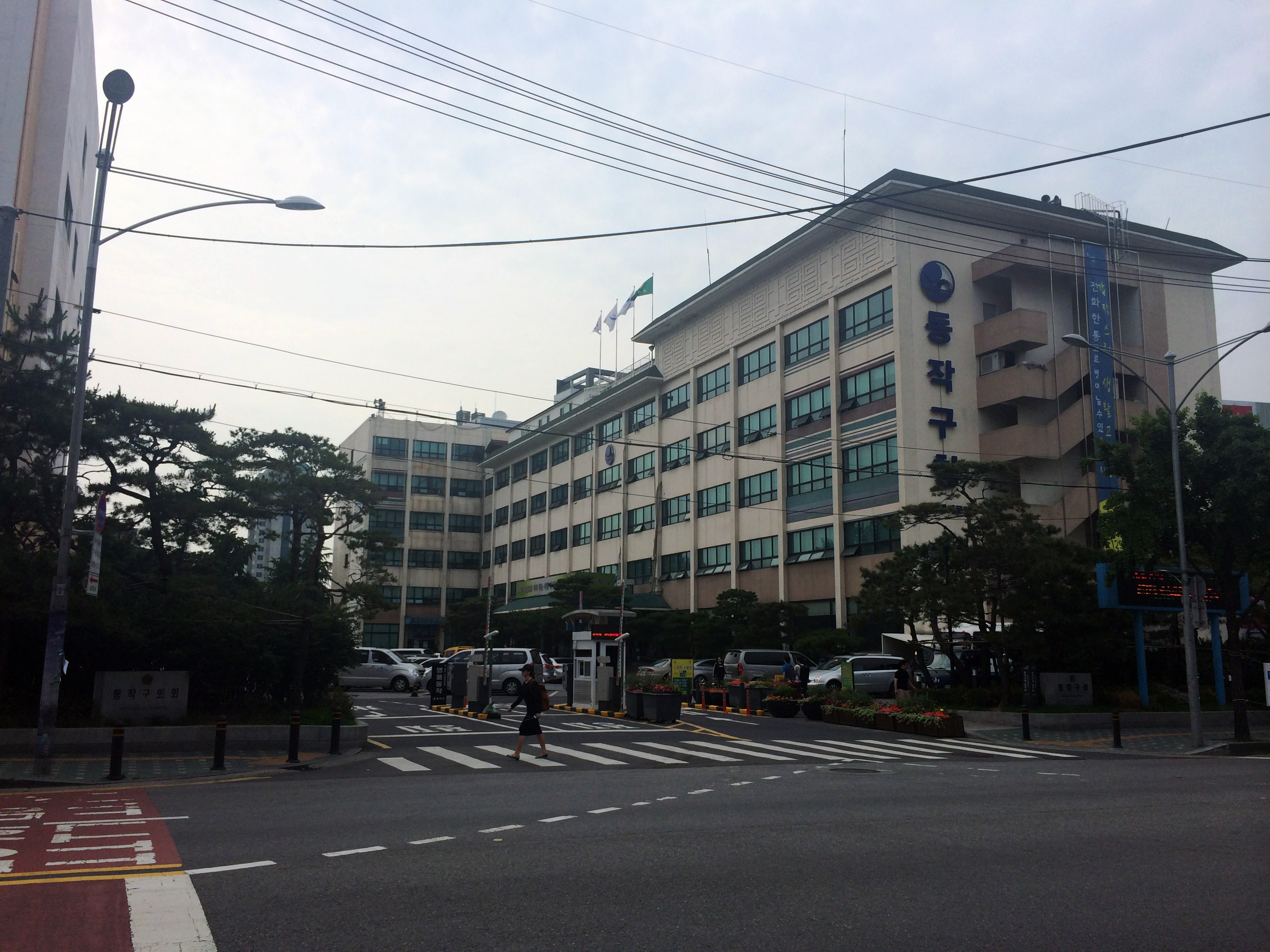 Dongjak-gu Office (Seoul-teukbyeolsi)